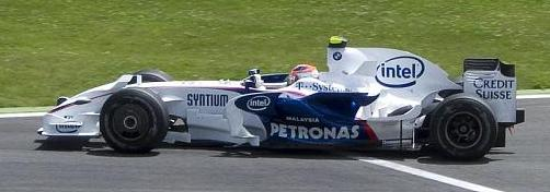 Robert Kubica driving for BMW Sauber at the 2008 French Grand Prix.